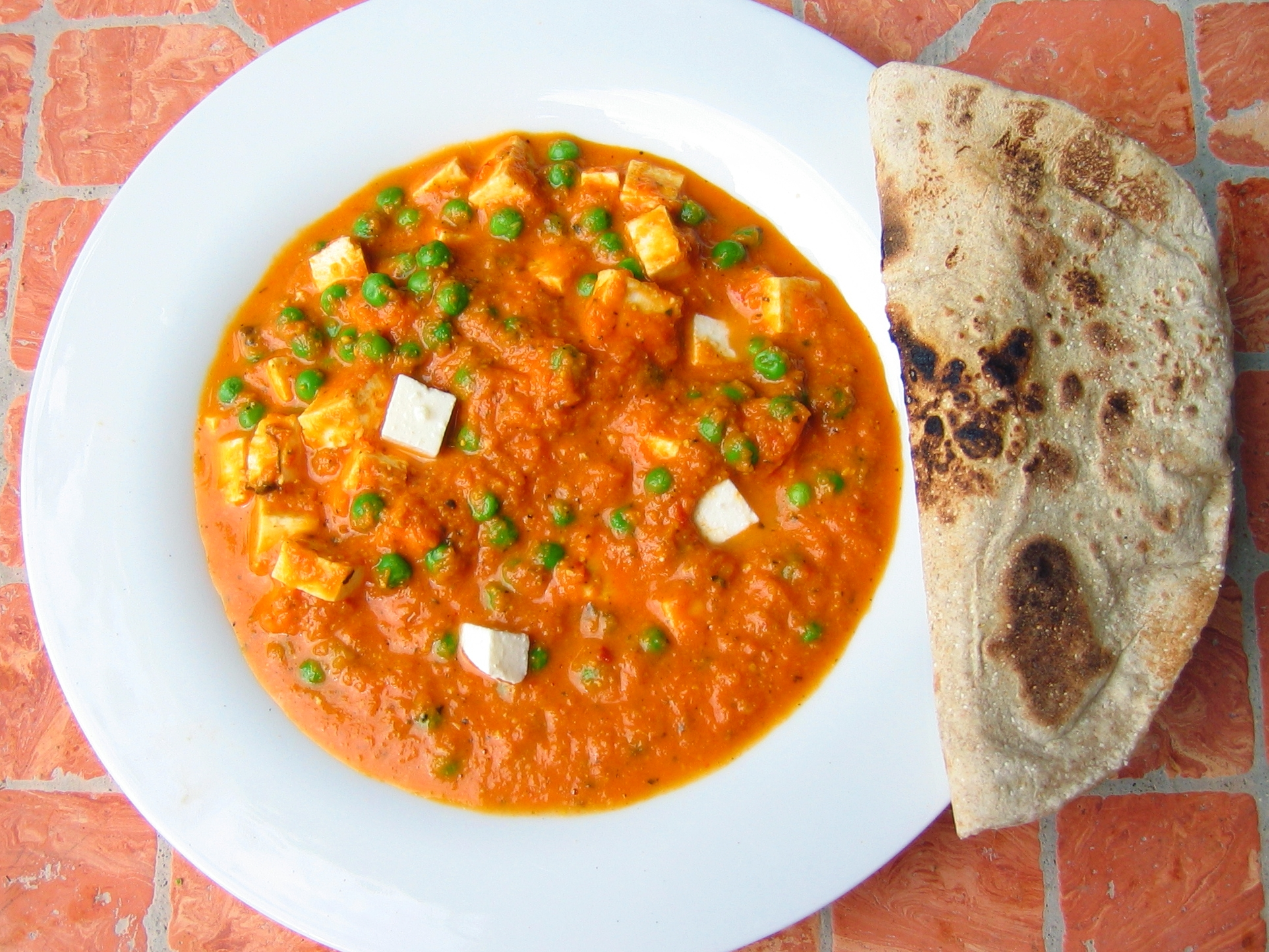 Mutter paneer – Green peas and Indian cheese in tomato gravy